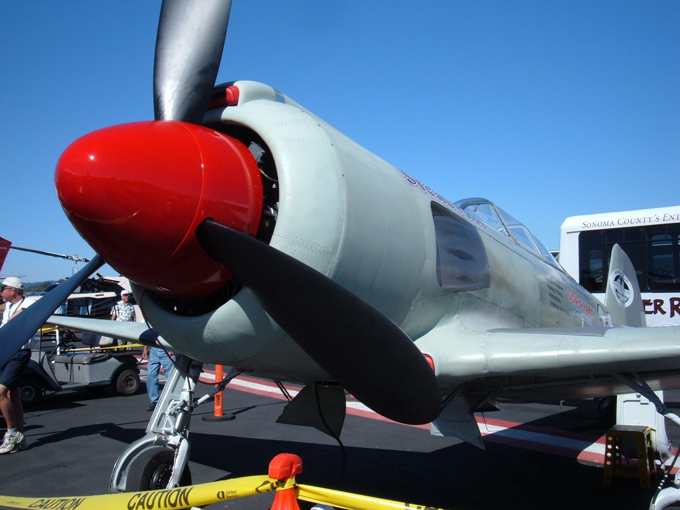 New build Romanian Yakovlev Yak 3U owned and operated by Team Steadfast at the Wings over Wine Country 2007 air show at the Charles M. Schulz - Sonoma County Airport in Sonoma County, California.